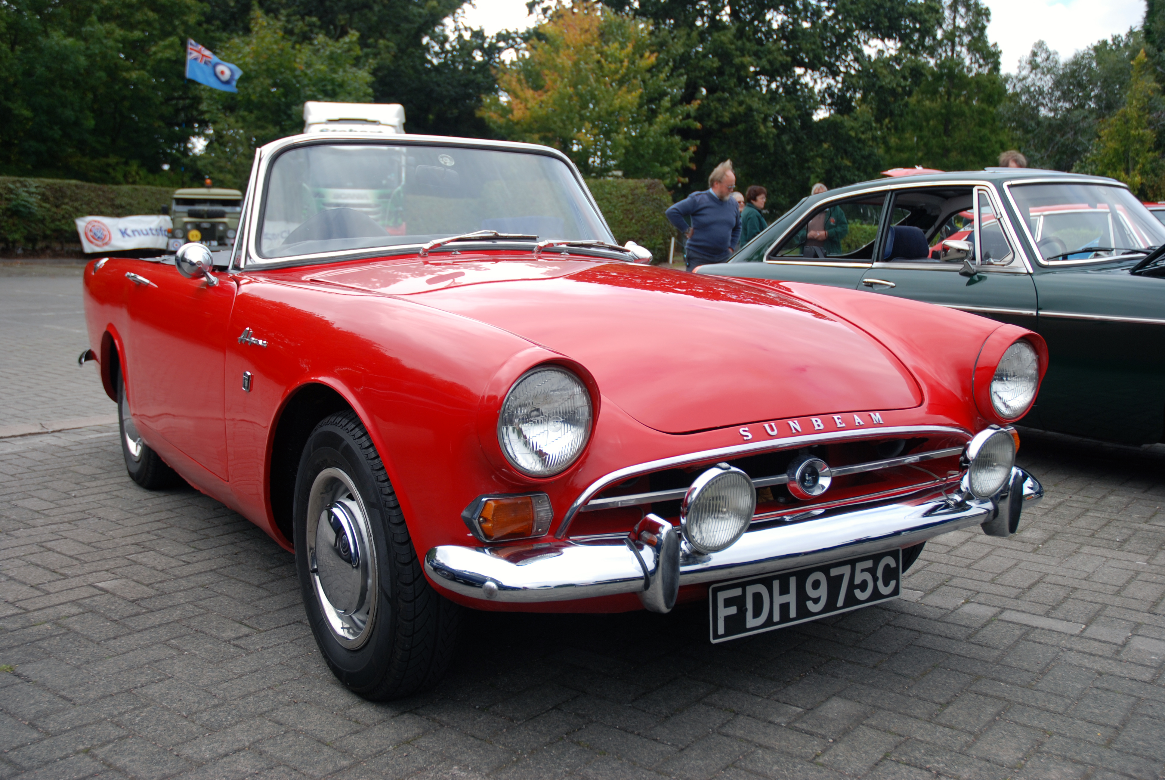 High Legh Garden Centre,Sep 2011